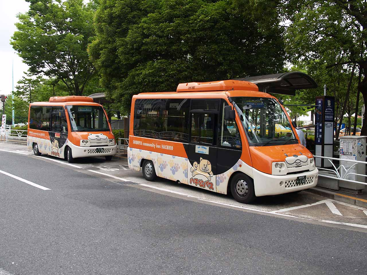 Hachiko-Bus, regional comunnity route buses in Shibuya ward, Tokyo. Forward: bound for Sasazuka, operated by Keio Bus Higashi(D40212). License plate: TKN200 A-161 Aft: bound for Ebisu and Daikan-yama, operated by Tokyu Bus.(A2705) License plate: TKS200 A-105 Place: Jinnan, Shibuya ward, Tokyo Japan